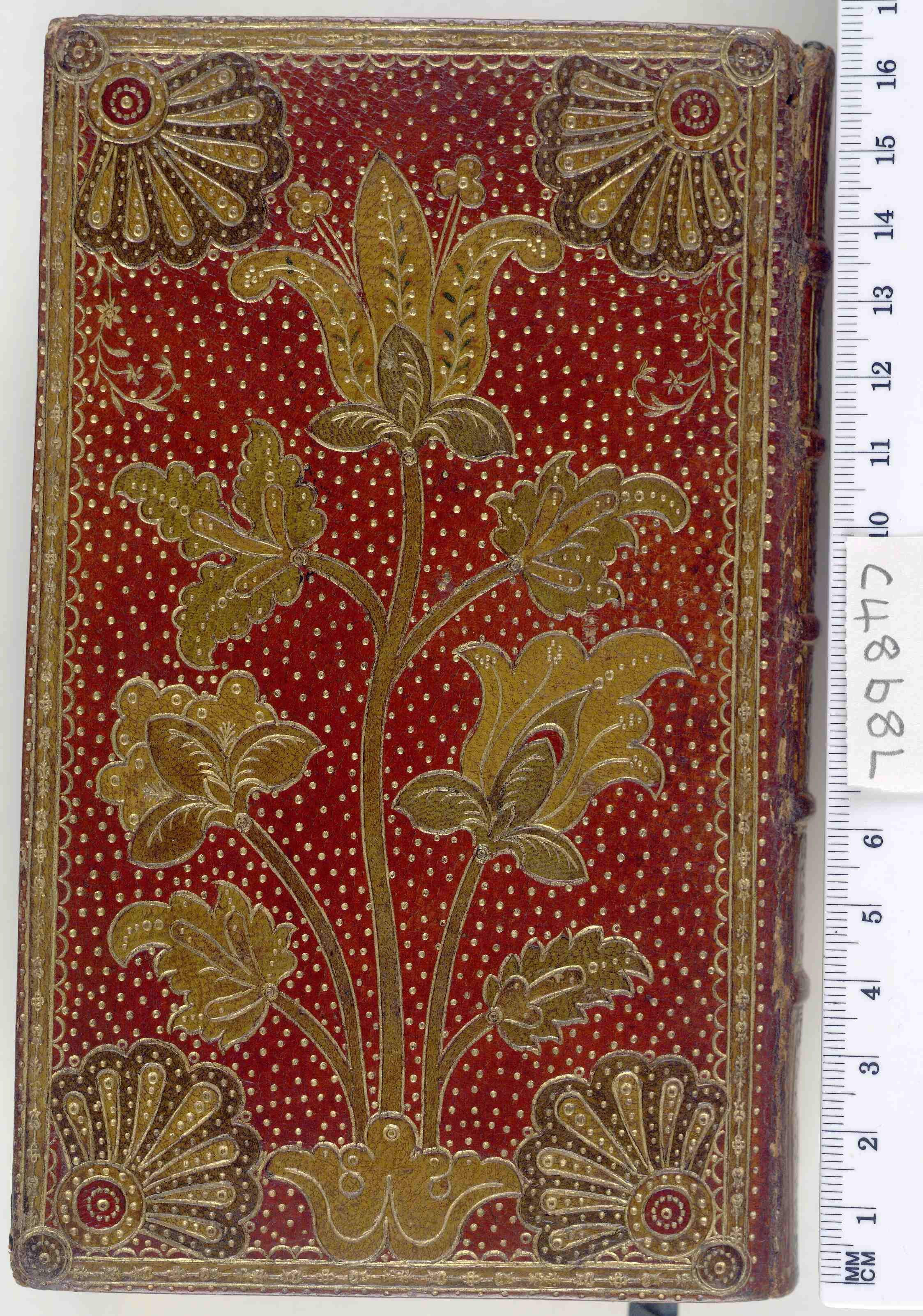 Style: Floral|All over design; Caption: Lower cover; Colour: Brown; Edge: Unspecified